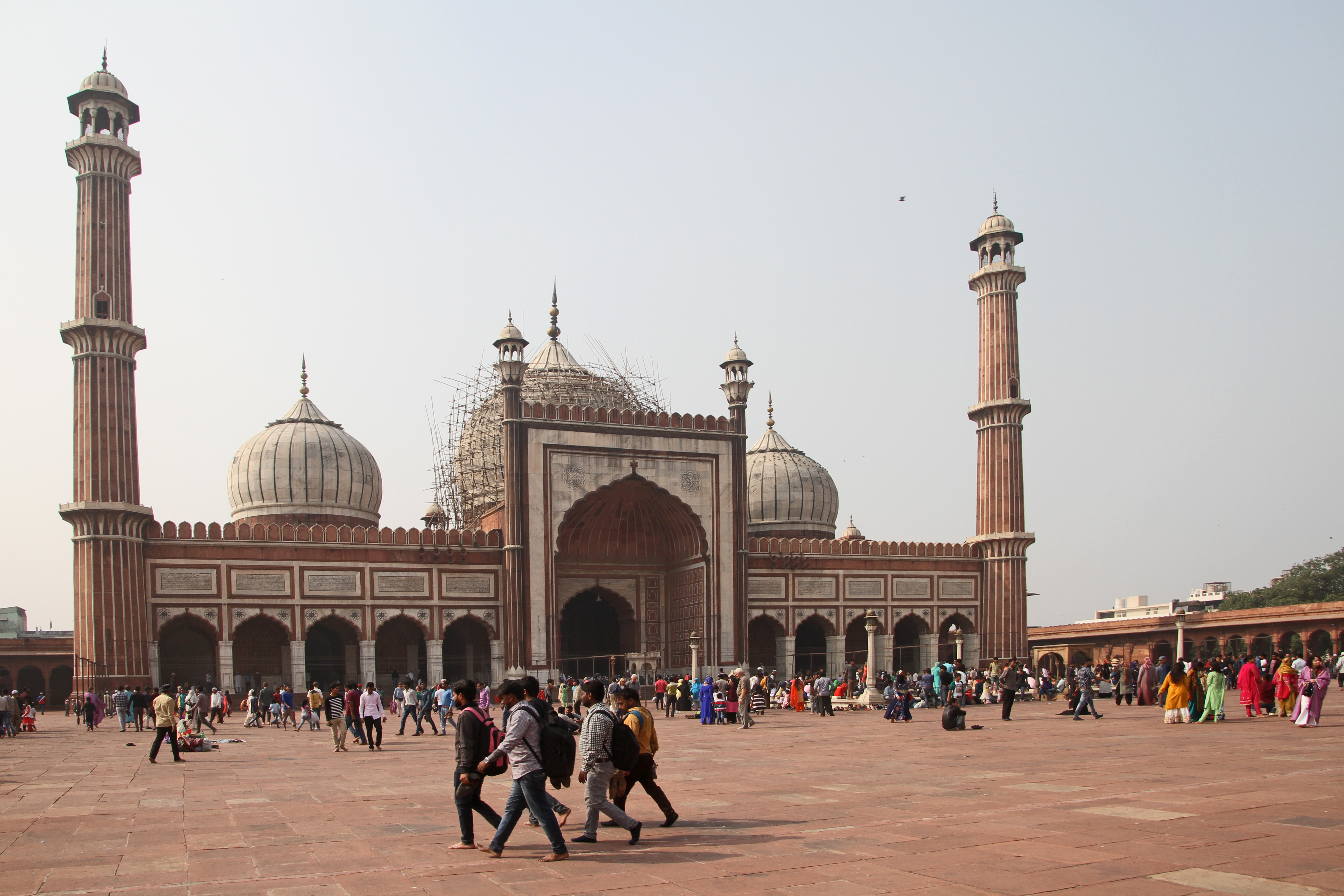 Jama Masjid, Delhi